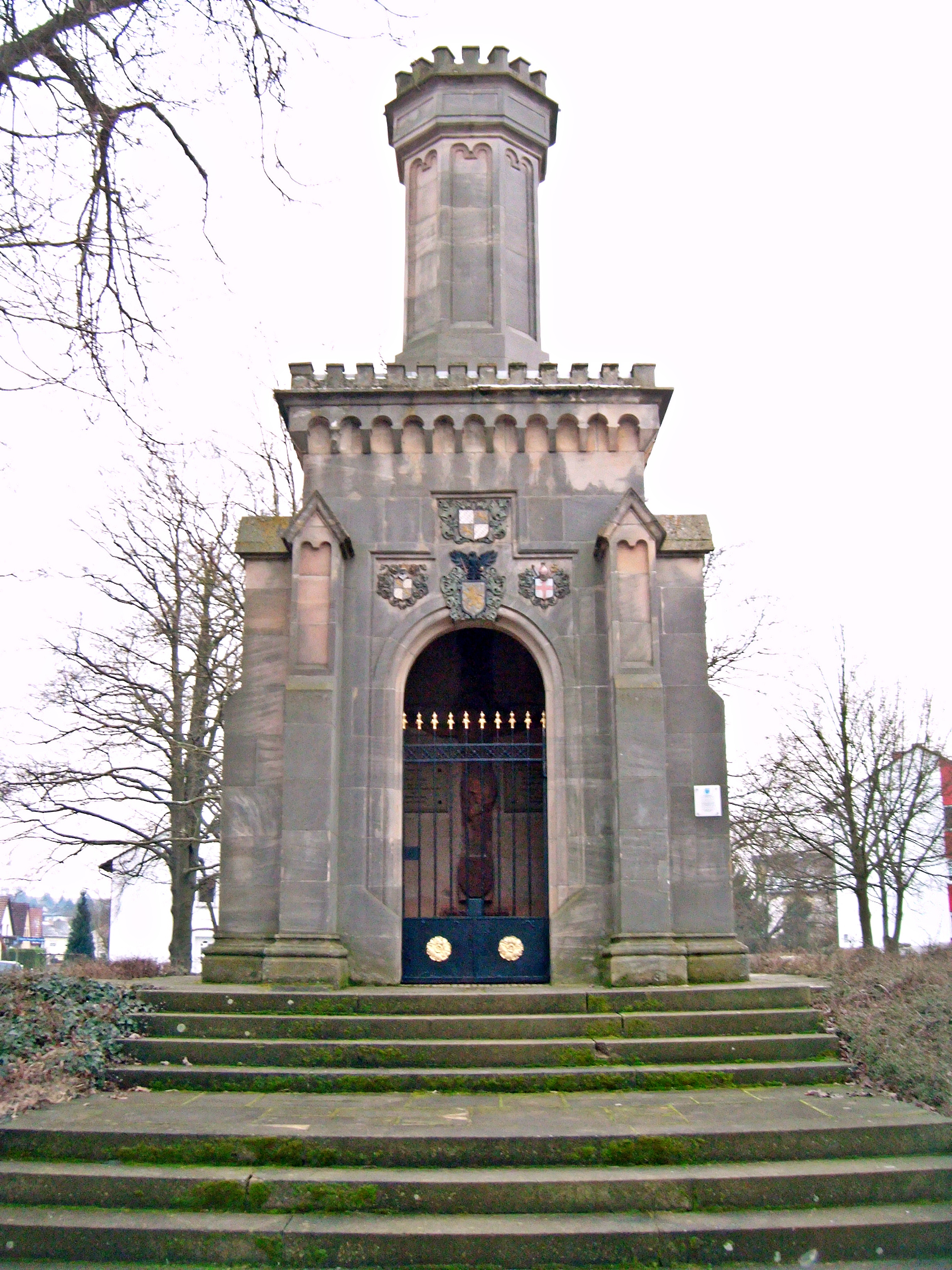 Königskreuzkapelle Göllheim